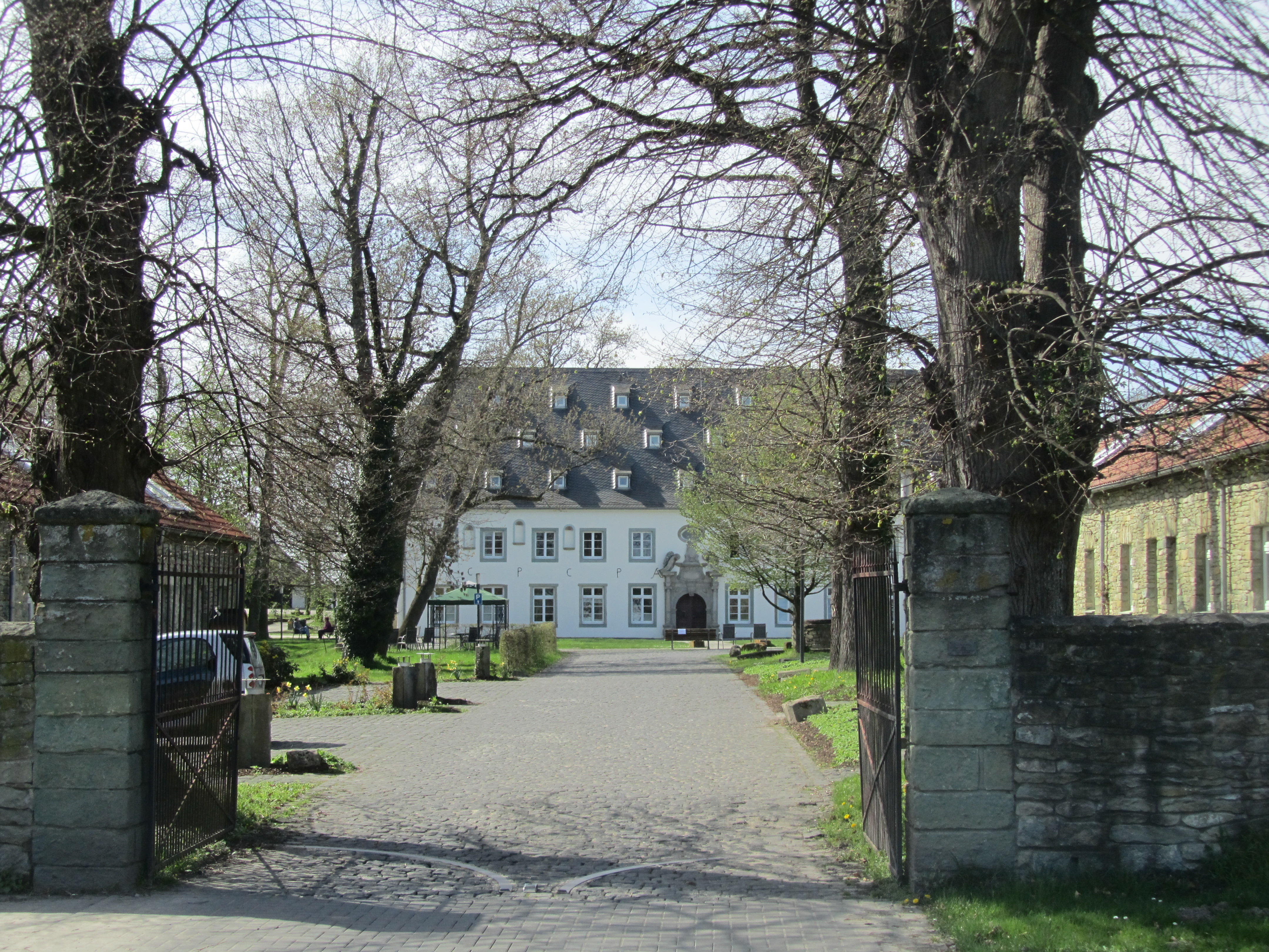 Central Building of ancient monastery Paradiese near Soest Germany